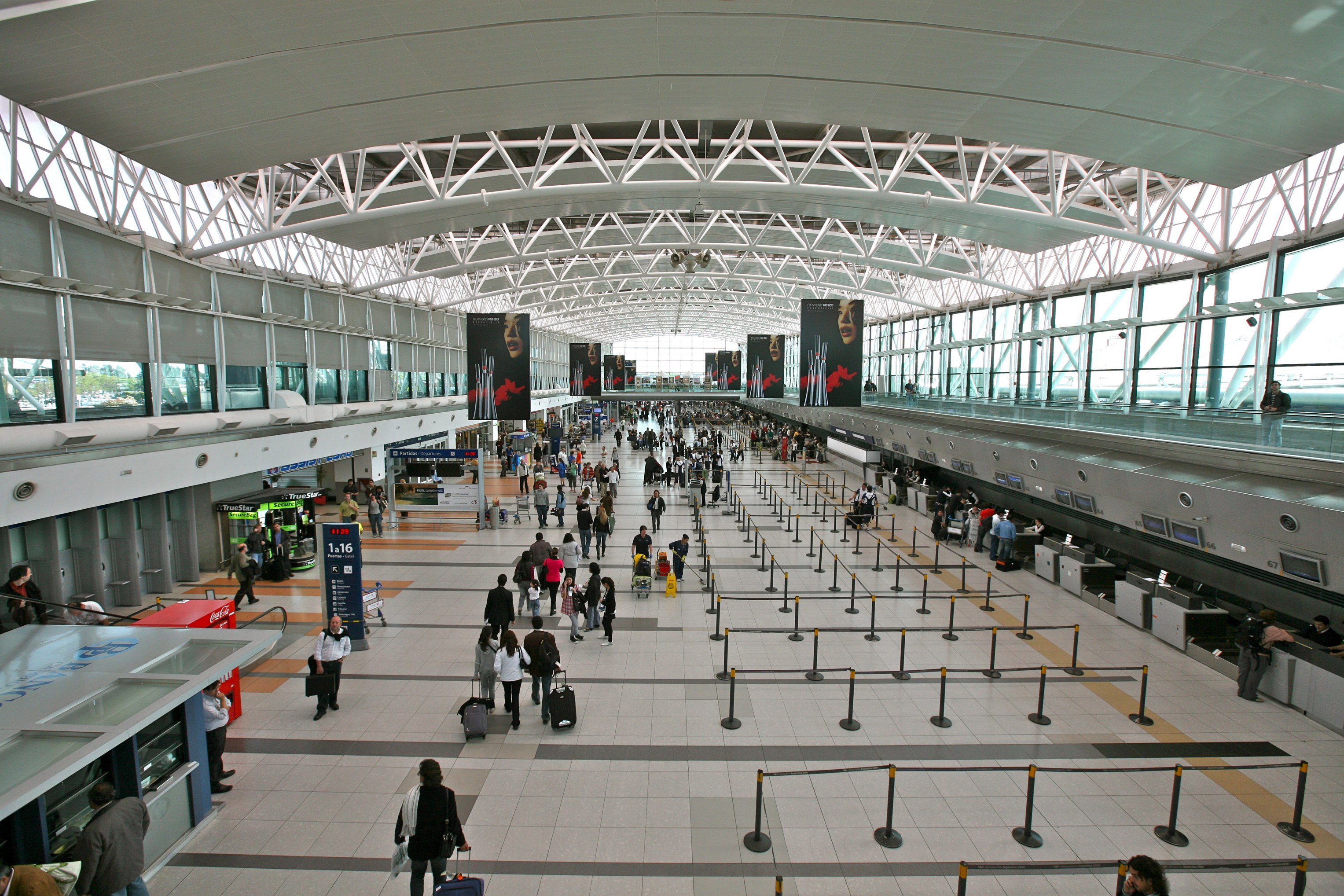 Buenos Aires Airport, International Check In Area